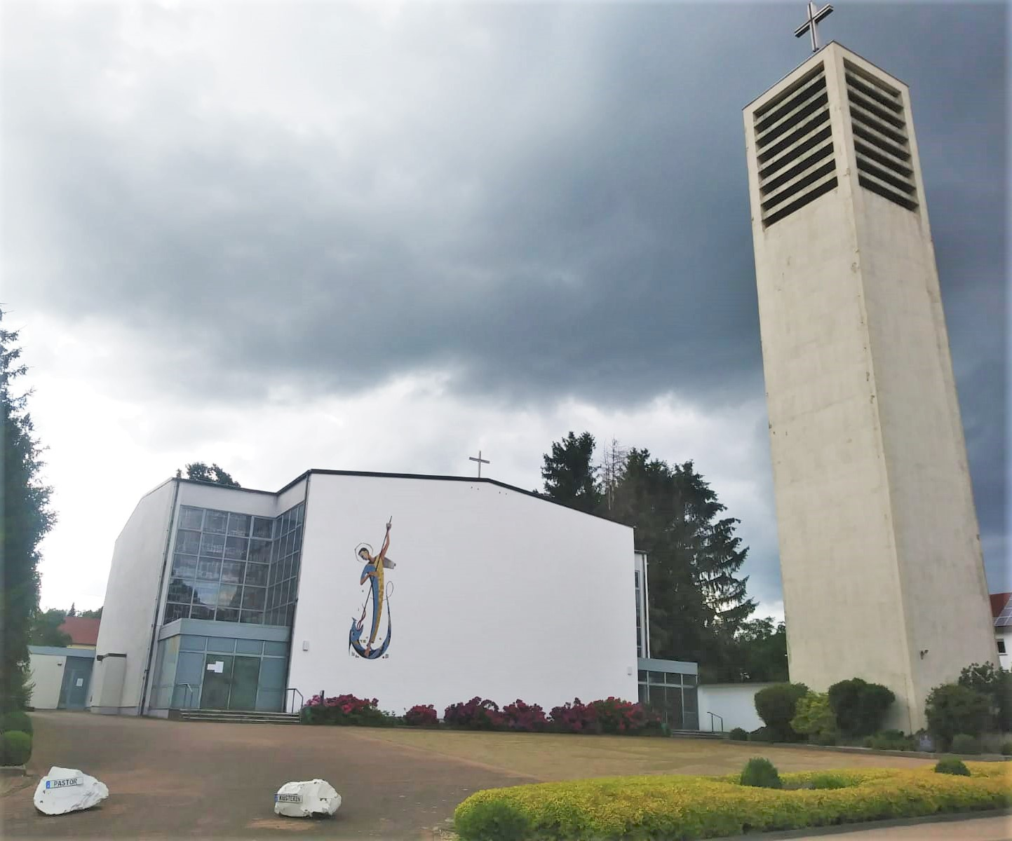 Maria Königin (Dörsdorf)